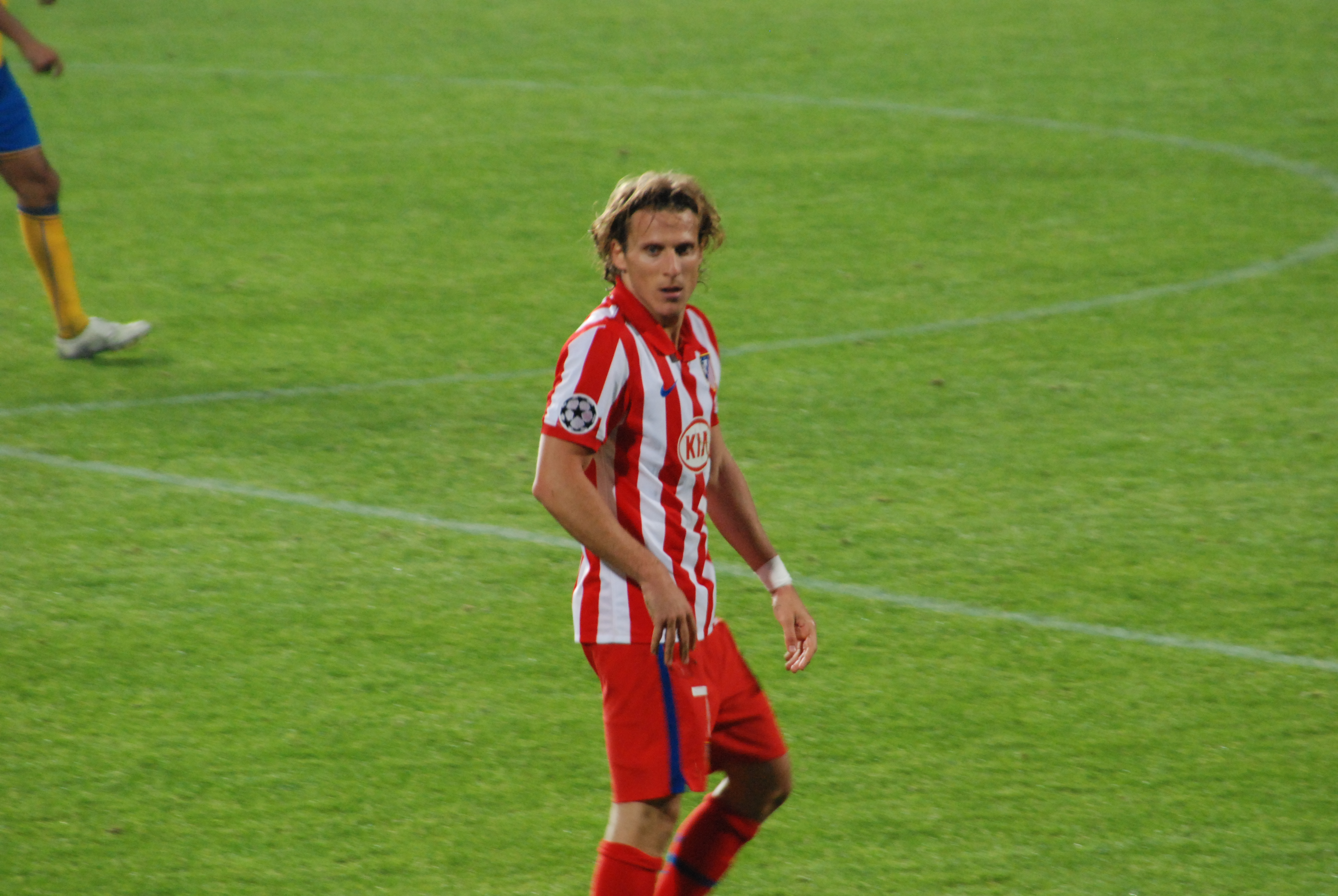 For the group stages of the UEFA Champions League 2009/2010.